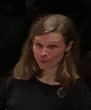 Lithuanian conductor Mirga Gražinytė-Tyla ant the City of Birmingham Symphony Orchestra in Heidelberg 2018